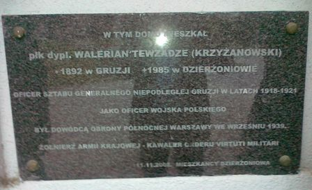 The memorial plaque